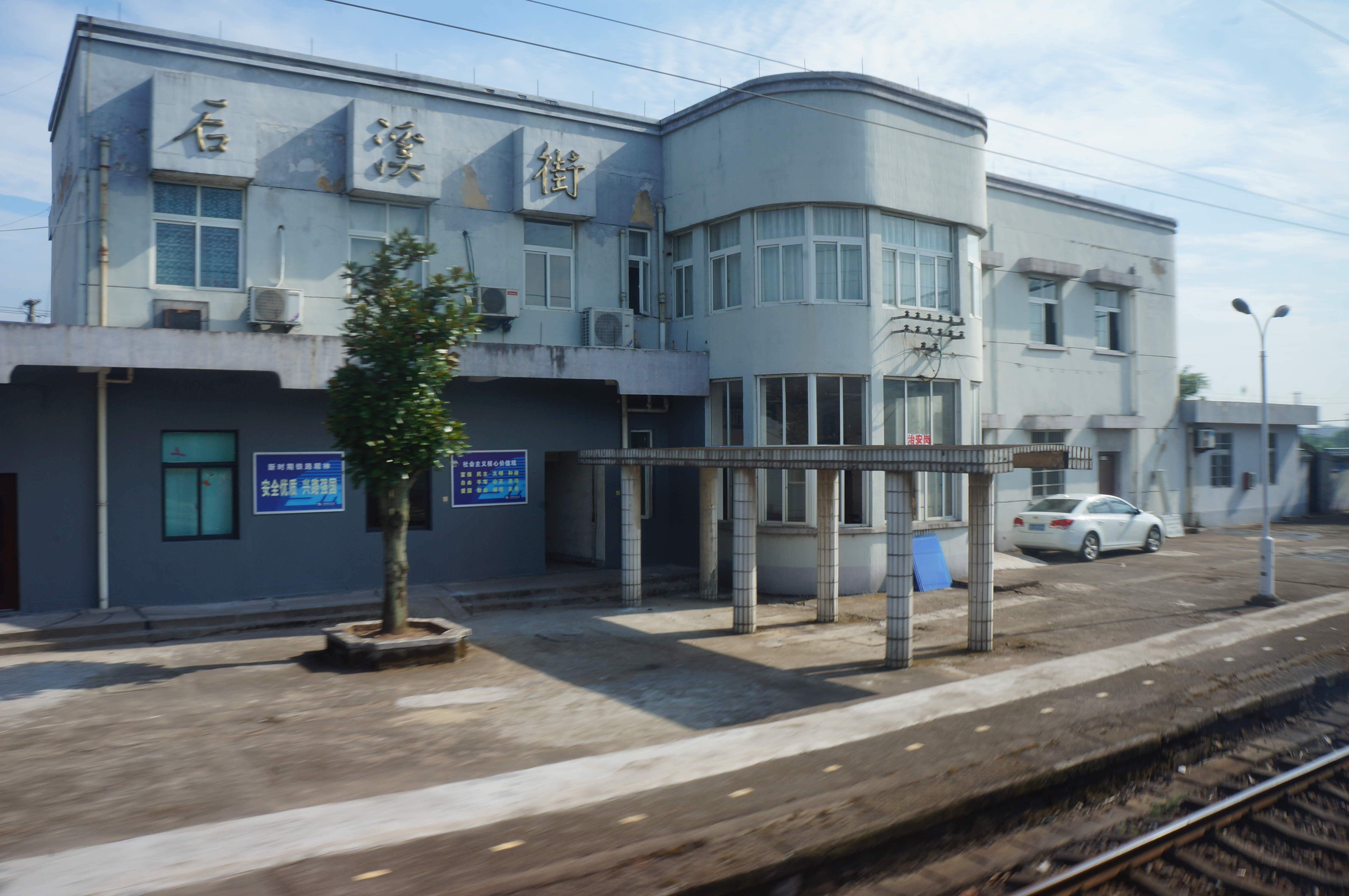 201708 Houxijie Station